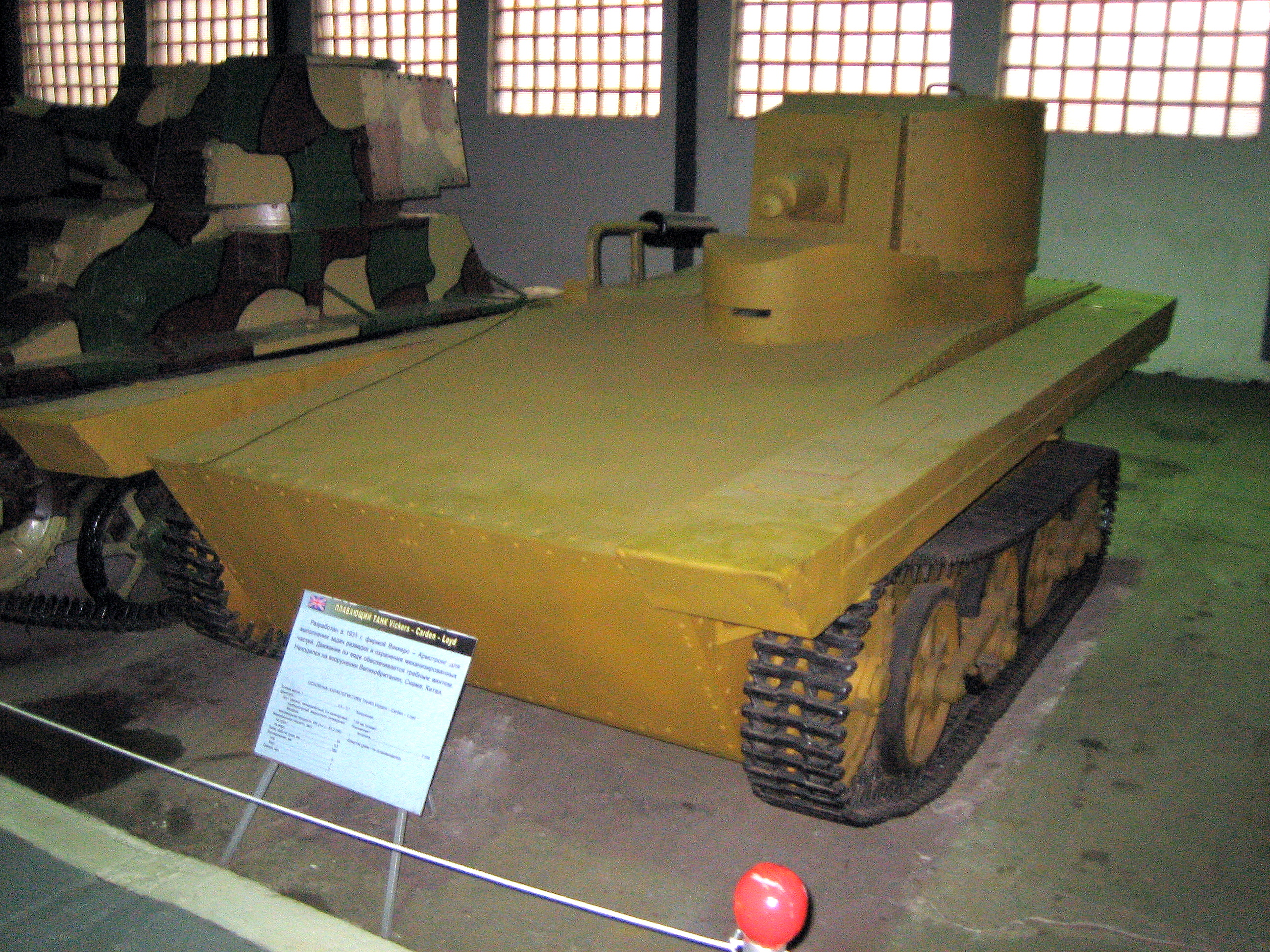 Vickers-Carden-Loyd floating tank, displayed in Kubinka Tank Museum